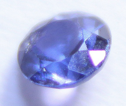 0.19 carat blue Yogo sapphire from Yogo Gulch, Montana. This gem is cut in the traditional "diamond cut."